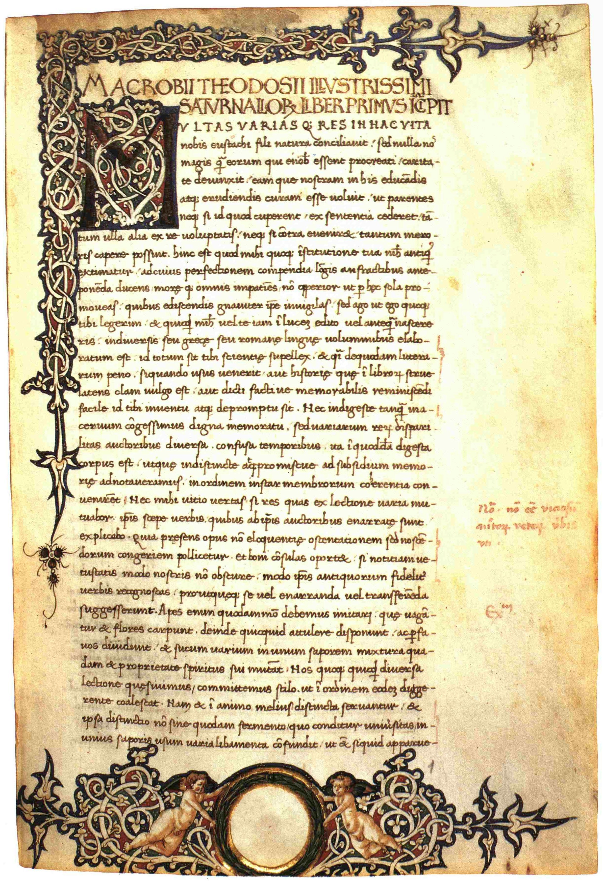 The beginning of the „Saturnalia“ in the manuscript Florence, Biblioteca Medicea Laurenziana, Plut. 65.36.